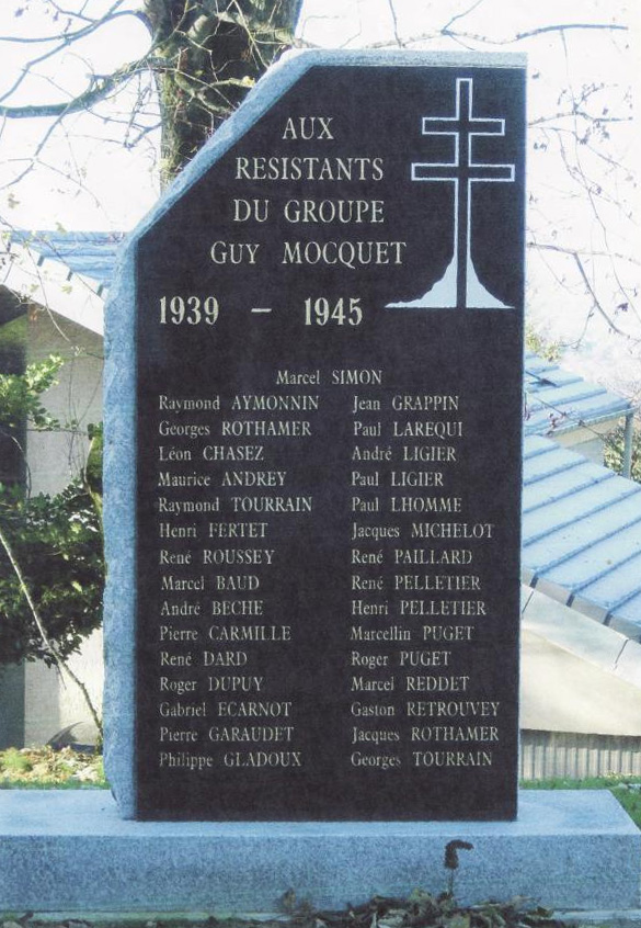 Stele bearing the names of members of the Guy Mocquet resistance group